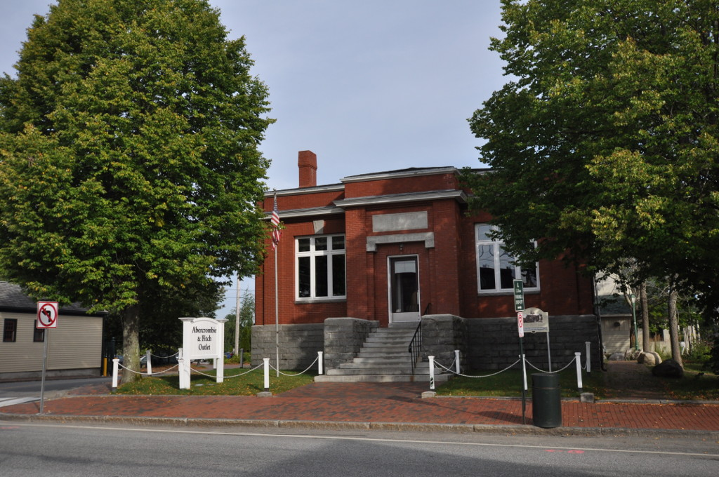 The former library building in Freeport, Maine; funded in part by Andrew Carnegie. It is now a retail space.